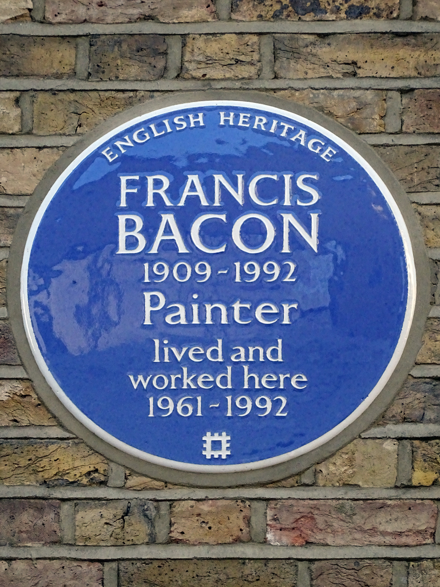 Blue plaque erected in 2017 by English Heritage at 7 Reece Mews, South Kensington, London SW7 3HE, Royal Borough of Kensington and Chelsea